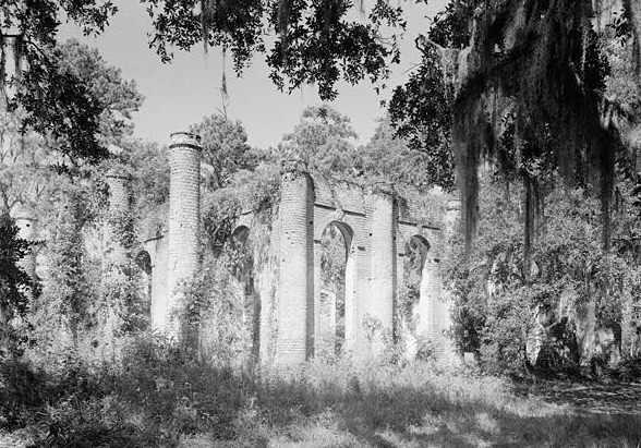 Prince William's Parish Church (Ruins), Sheldon vicinity (Beaufort County, South Carolina) - (cropped) This file comes from the Historic American Buildings Survey (HABS), Historic American Engineering Record (HAER) or Historic American Landscapes Survey (HALS). These are programs of the National Park Service established for the purpose of documenting historic places. Records consist of measured drawings, archival photographs, and written reports. This tag does not indicate the copyright status of the attached work. A normal copyright tag is still required. See Commons:Licensing. This work is in the public domain in the United States because it is a work prepared by an officer or employee of the United States Government as part of that person’s official duties under the terms of Title 17, Chapter 1, Section 105 of the US Code. Note: This only applies to original works of the Federal Government and not to the work of any individual U.S. state, territory, commonwealth, county, municipality, or any other subdivision. This template also does not apply to postage stamp designs published by the United States Postal Service since 1978. (See § 313.6(C)(1) of Compendium of U.S. Copyright Office Practices). It also does not apply to certain US coins; see The US Mint Terms of Use. This file has been identified as being free of known restrictions under copyright law, including all related and neighboring rights. Object location32° 37′ 06.7″ N, 80° 46′ 49.7″ W